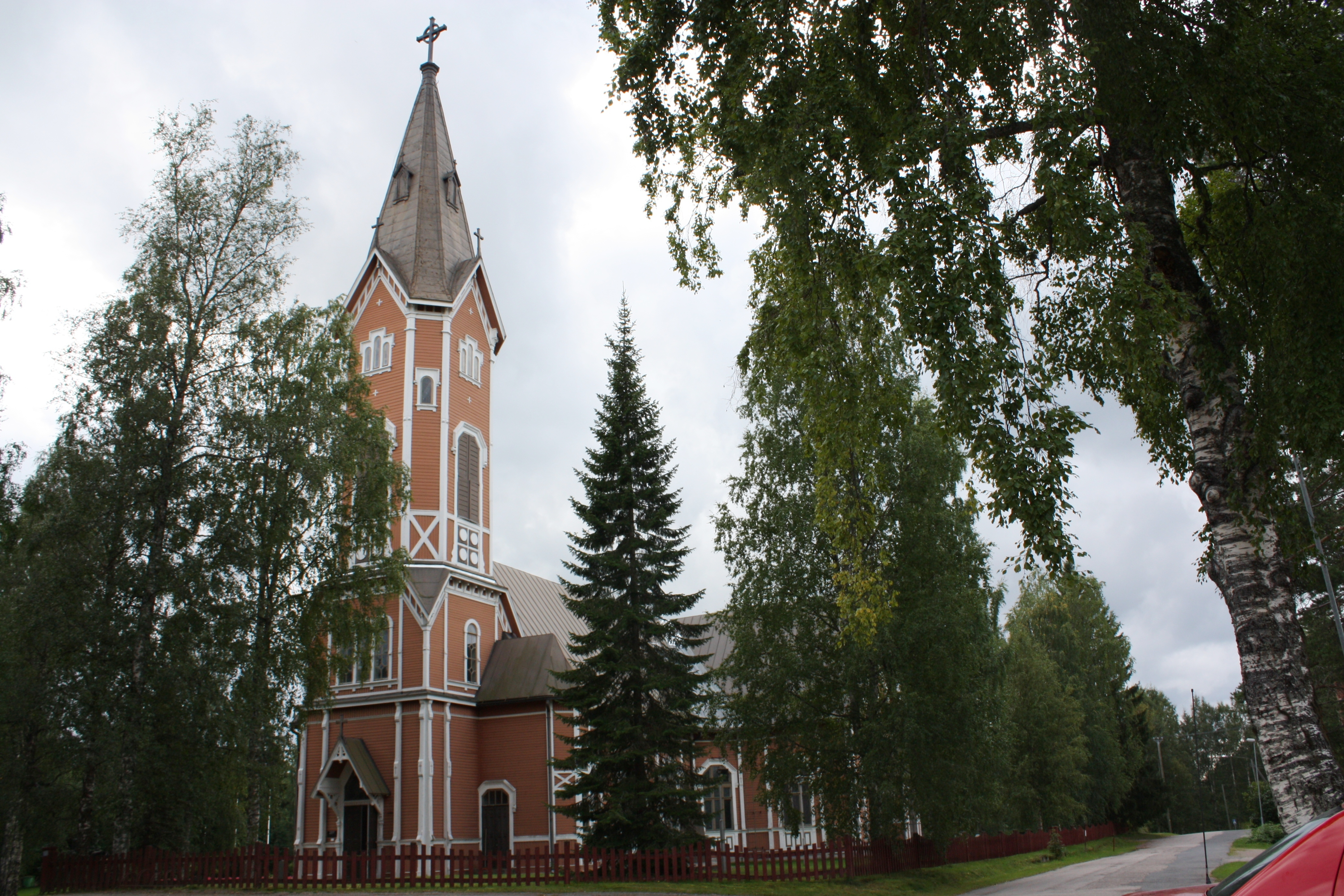 Multia Church in Multia, Finland, The wooden church was built by Matti Åkergren in 1796 and renovated in 1900.